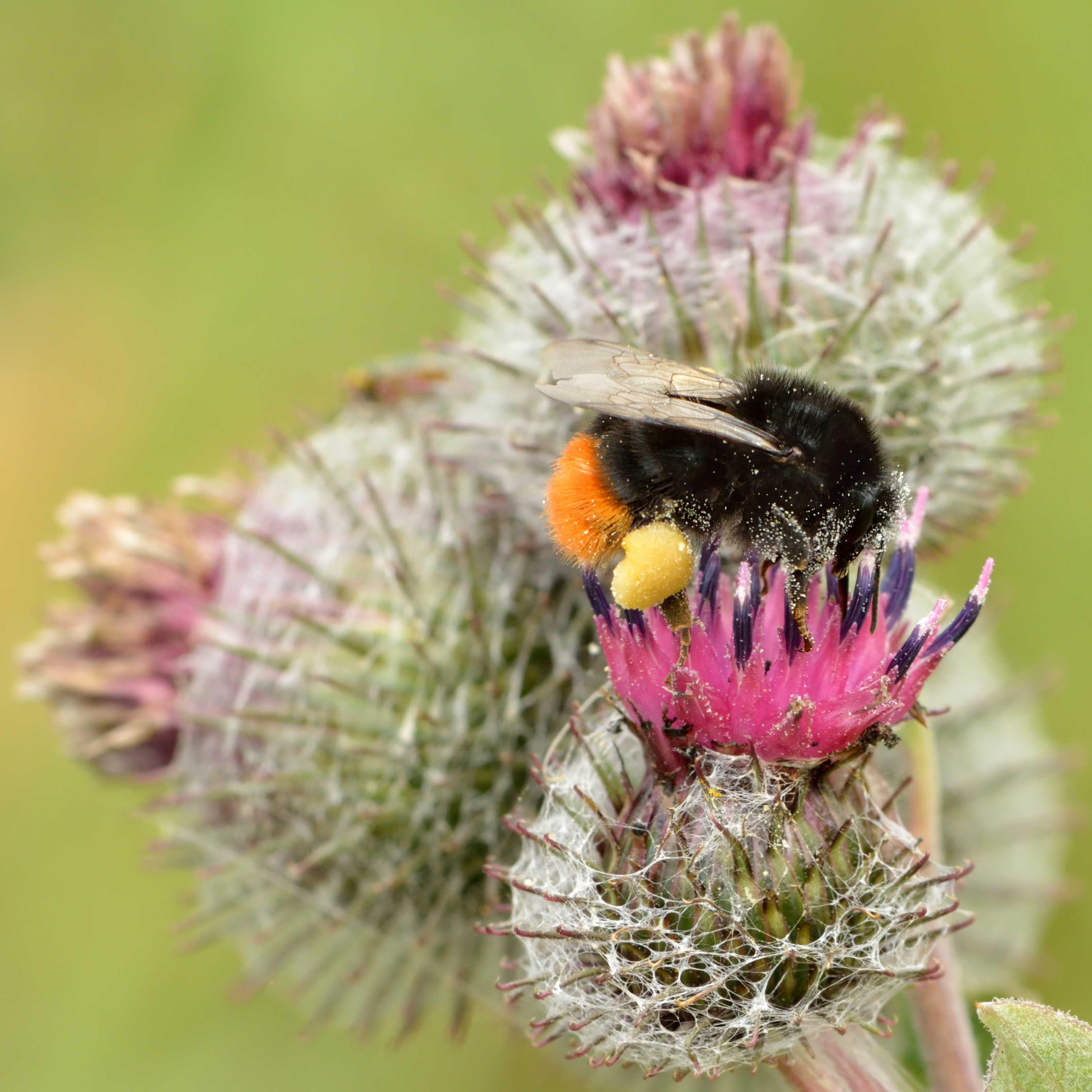 Red-tailed bumblebee (Bombus lapidarius) on the downy burdock (Arctium tomentosum). Keila, Northwestern Estonia.